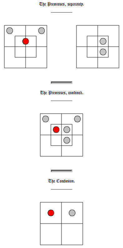 Cover of Symbolic Logic by Lewis Carroll, showing the diagrams he uses to solve logical problems